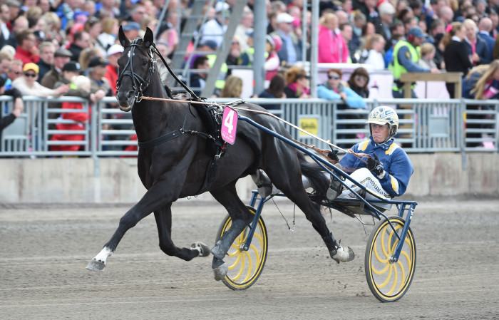 Trotter Nuncio